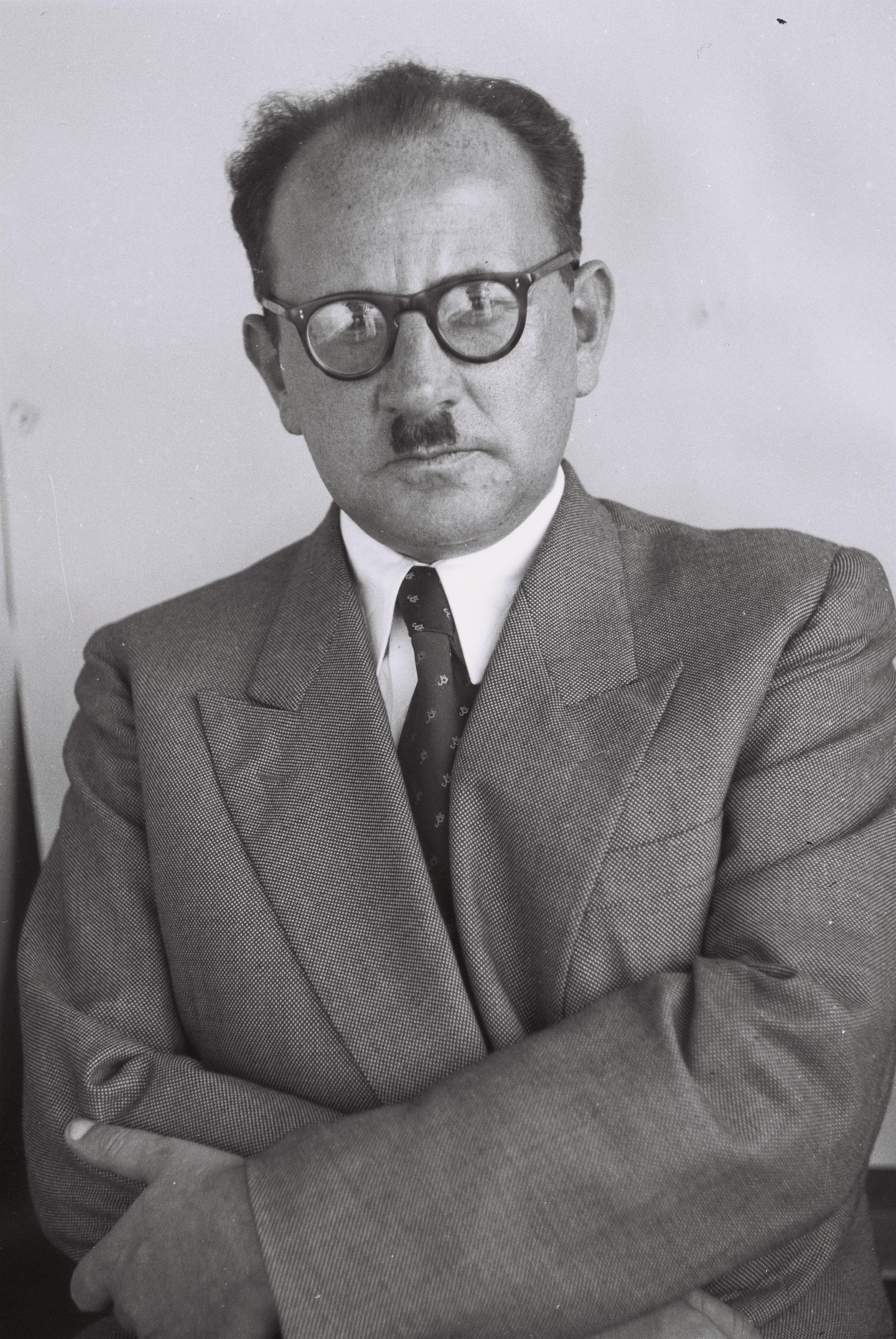 PORTRAIT, YA'AKOV ZUR, ISRAEL AMBASSADOR TO ARGENTINA AND URUGUAY.